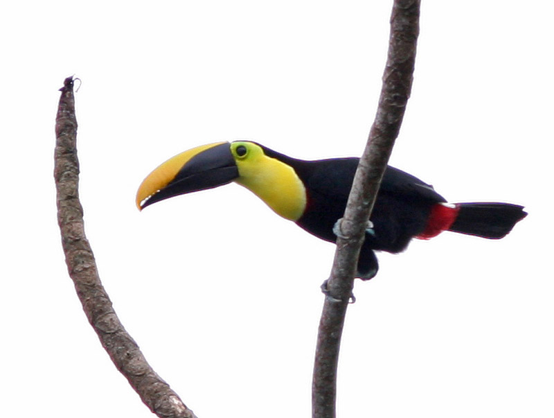 Black-mandibled Toucan (Ramphastos ambiguus) in La Azulita, Venezuela